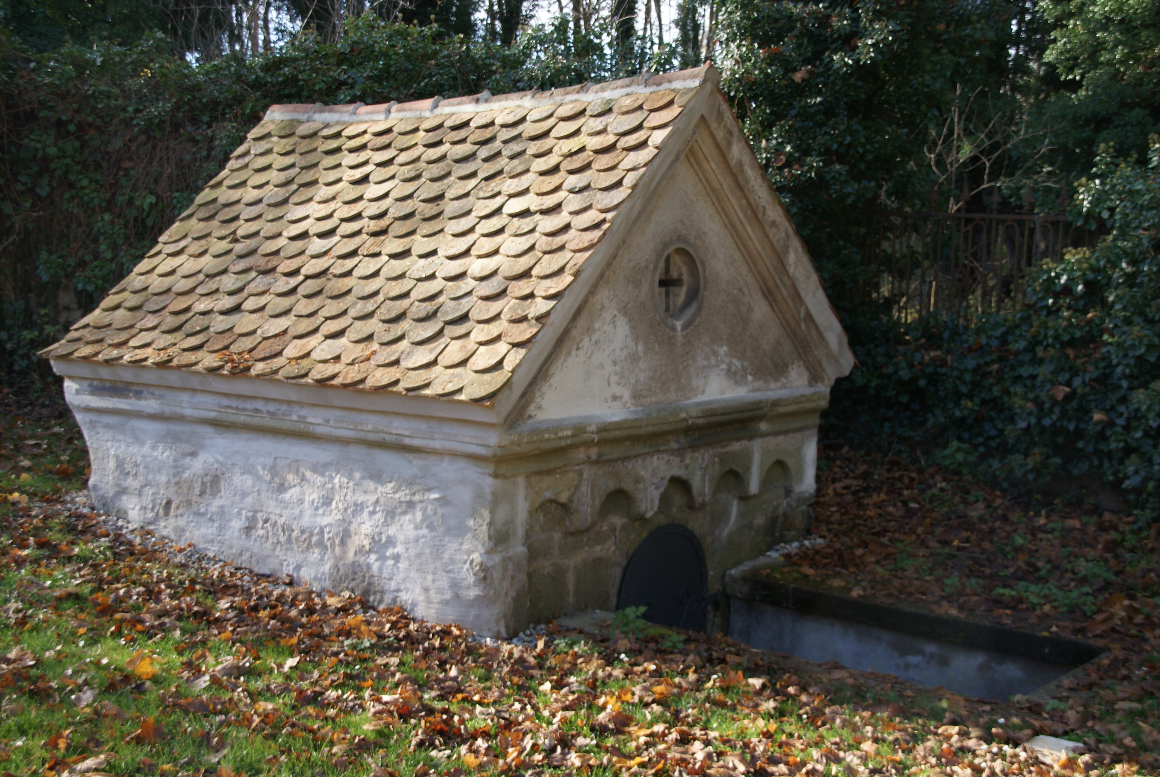 Romanesque well house of Prüfening Abbey in Regensburg. The well is still delivering water.